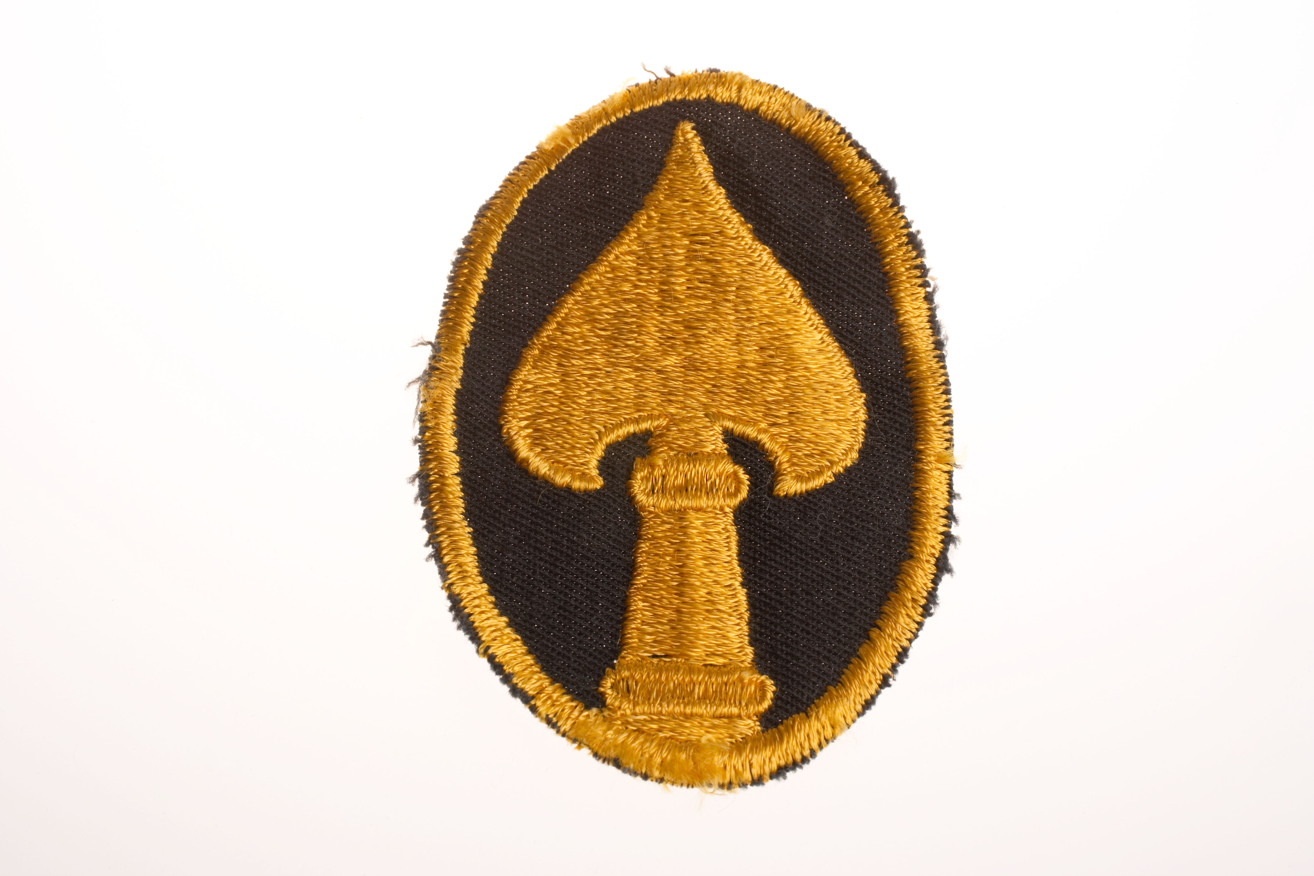 The patch was designed by General William J. Donovan, founder of the Office of Strategic Services (OSS), as the insignia for OSS. This patch is thought to be one worn by a CIA courier and based on Donovan’s OSS prototype. For more information on CIA history and this artifact please visit